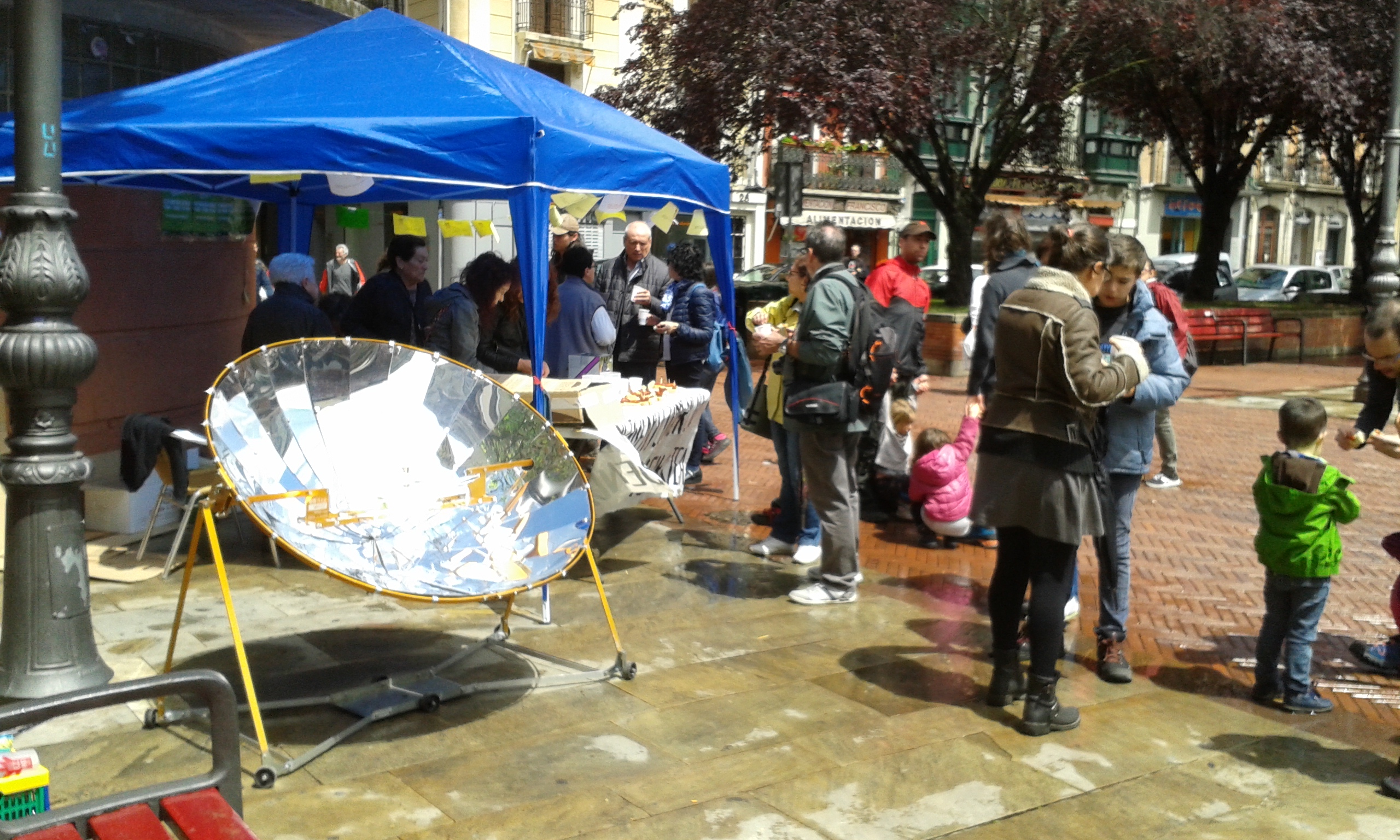 Solar cooking in Iruñea (Navarre)